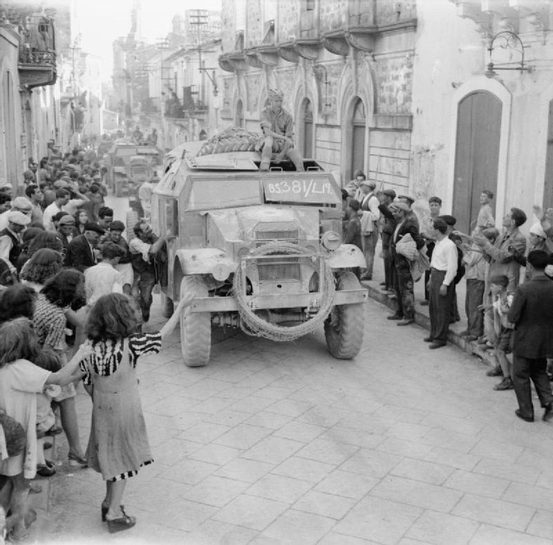 The British Army in Sicily 1943 Canadian built Chevrolet CGT artillery tractors and 25pdrs of 51st Highland Division are cheered by crowds as they enter Militello, 15 July 1943.